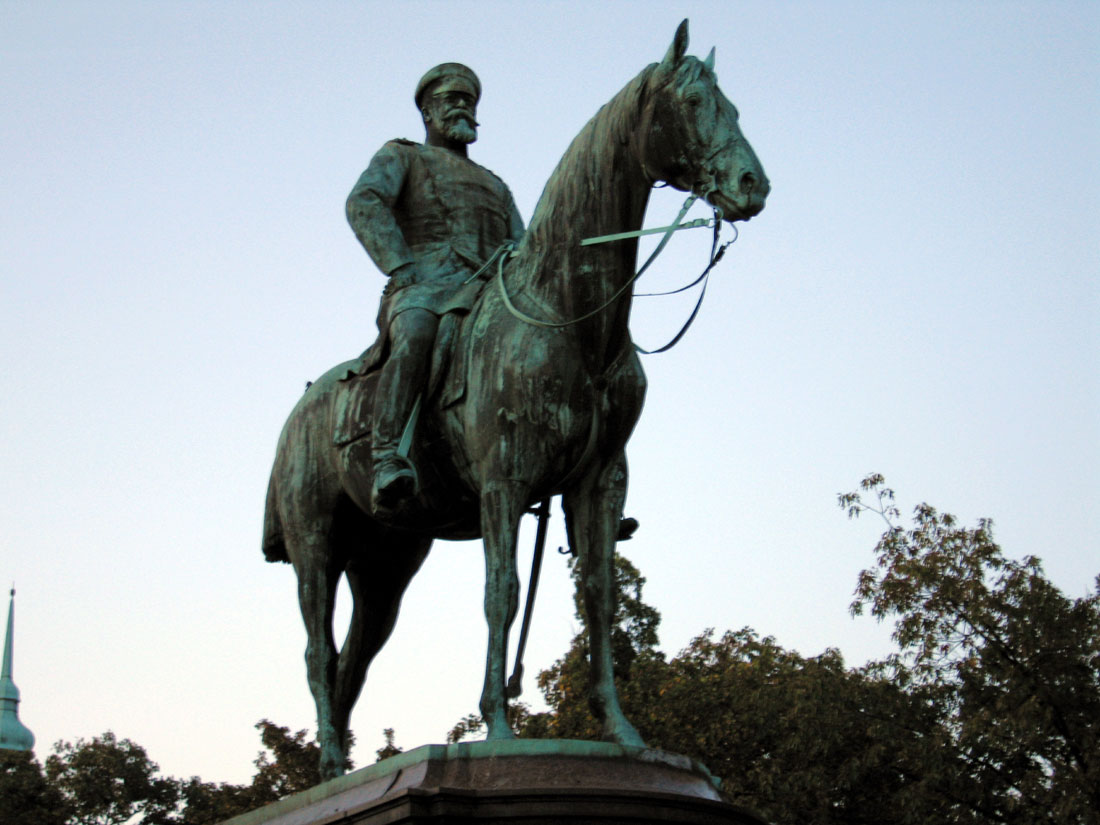 statue of Louis IV in Darmstadt